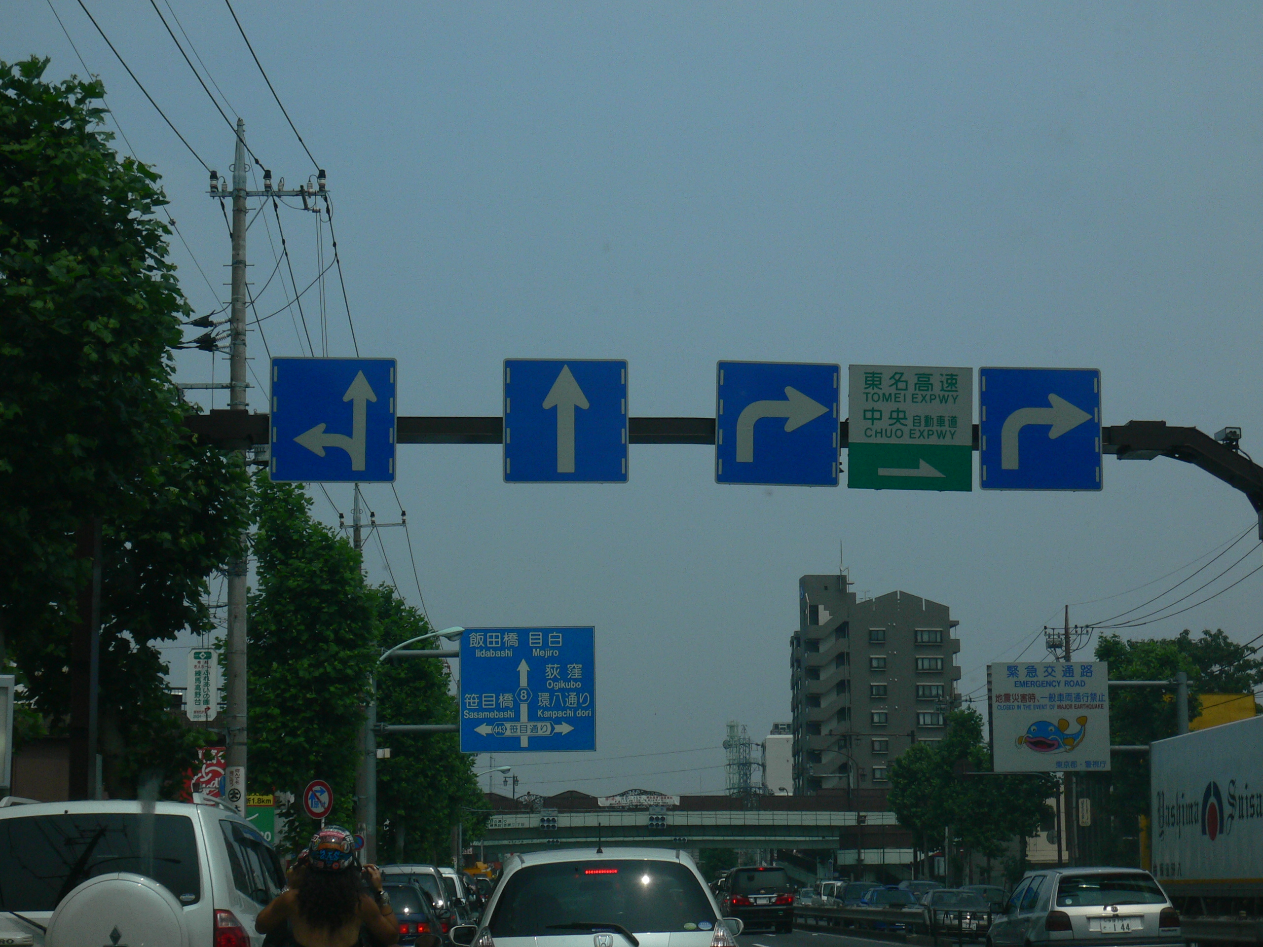 Yahara crossing, Nerima W, Tokyo M.